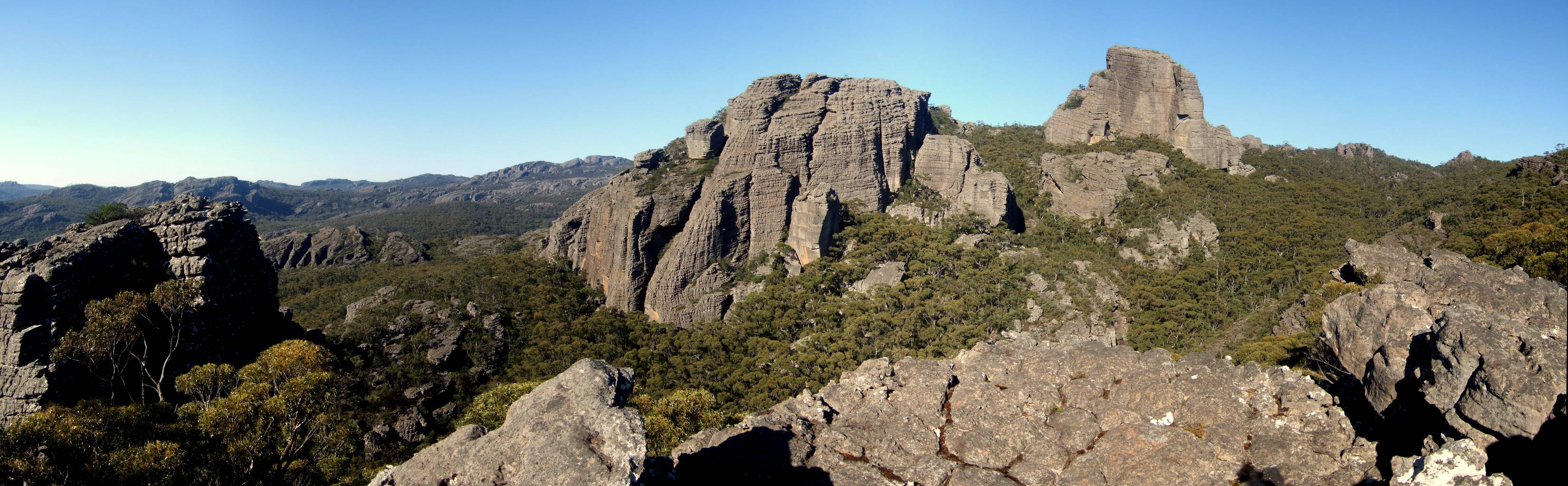 A panoramic view of part of the Western end of the Grampians National Park, Australia. The large rock formation to the right is known as The Fortress. I don't know the name of the central formation.